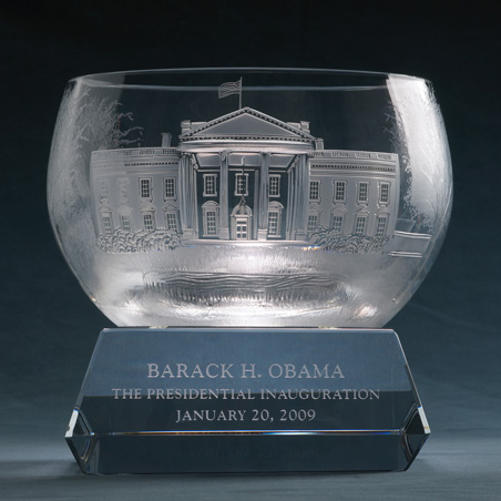 During the Inaugural Luncheon it is traditional for the President and Vice President to be presented with gifts by the Congress on behalf of the American people. The President and Vice President will each be presented with a framed official photograph taken of their swearing-in ceremony by a Senate photographer, as well as flags flown over the U.S. Capitol during the inaugural ceremonies. The President and Vice President will also receive one-of-a-kind engraved crystal bowls, created by the Lenox Company of Lawrenceville, NJ. President Obama will receive a bowl depicting the White House on a crystal base inscribed with "Barack H. Obama, January 20, 2009, The Presidential Inaugural." Vice President Biden will receive a bowl depicting the United States Capitol, on a crystal base inscribed with "Joseph R. Biden, Jr., January 20, 2009, The Vice Presidential Inaugural." The bowls were designed by Timothy Carder and hand-cut by master glass-cutter Peter O'Rourke.